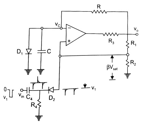 using op-amp